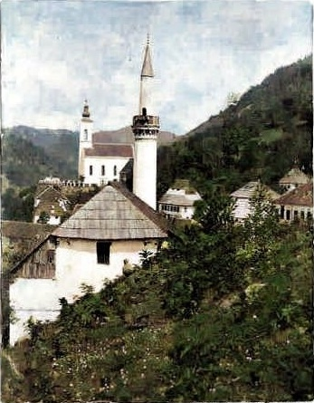 Colourised photograph of White Mosque of Srebrenica